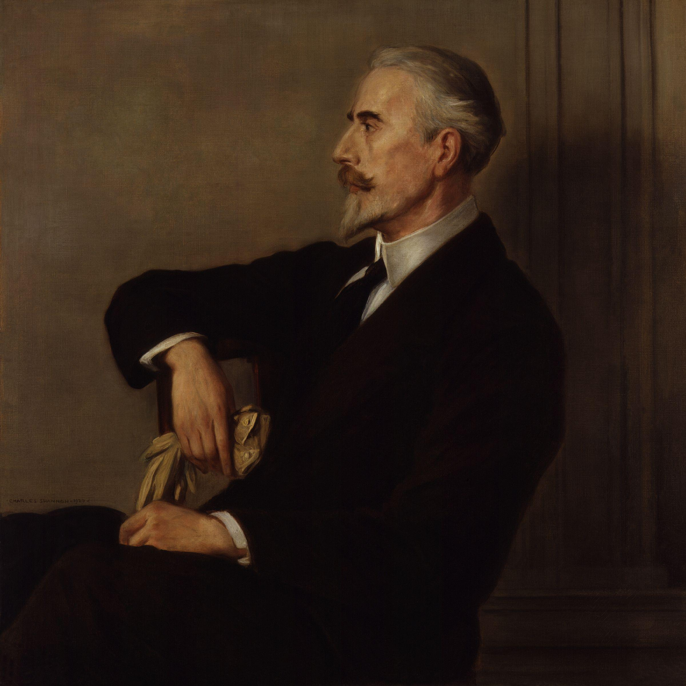 Henry Wickham Steed, by Charles Haslewood Shannon (died 1937). All images in this batch have been confirmed as author died before 1939 according to the official death date listed by the NPG.